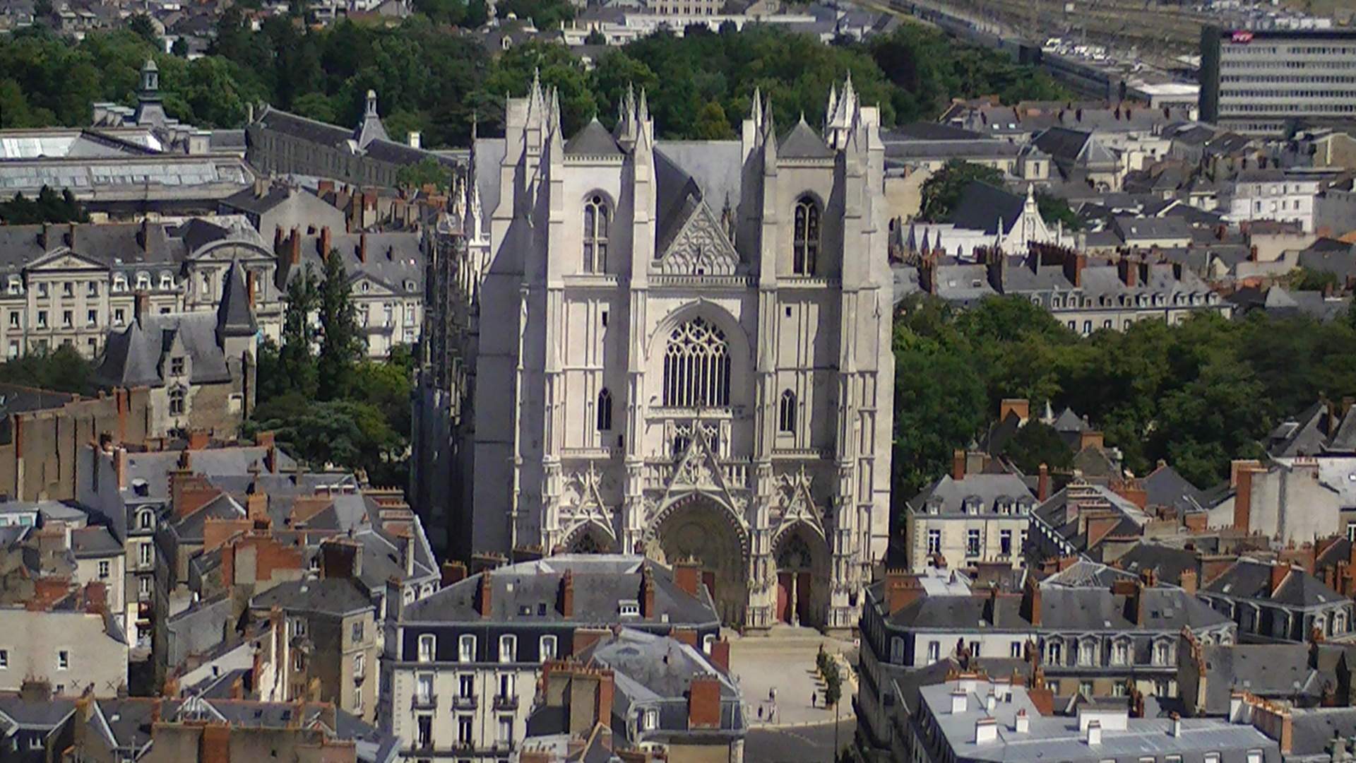 Nantes Cathedral as seen from the observation deck of the Tour Bretagne.